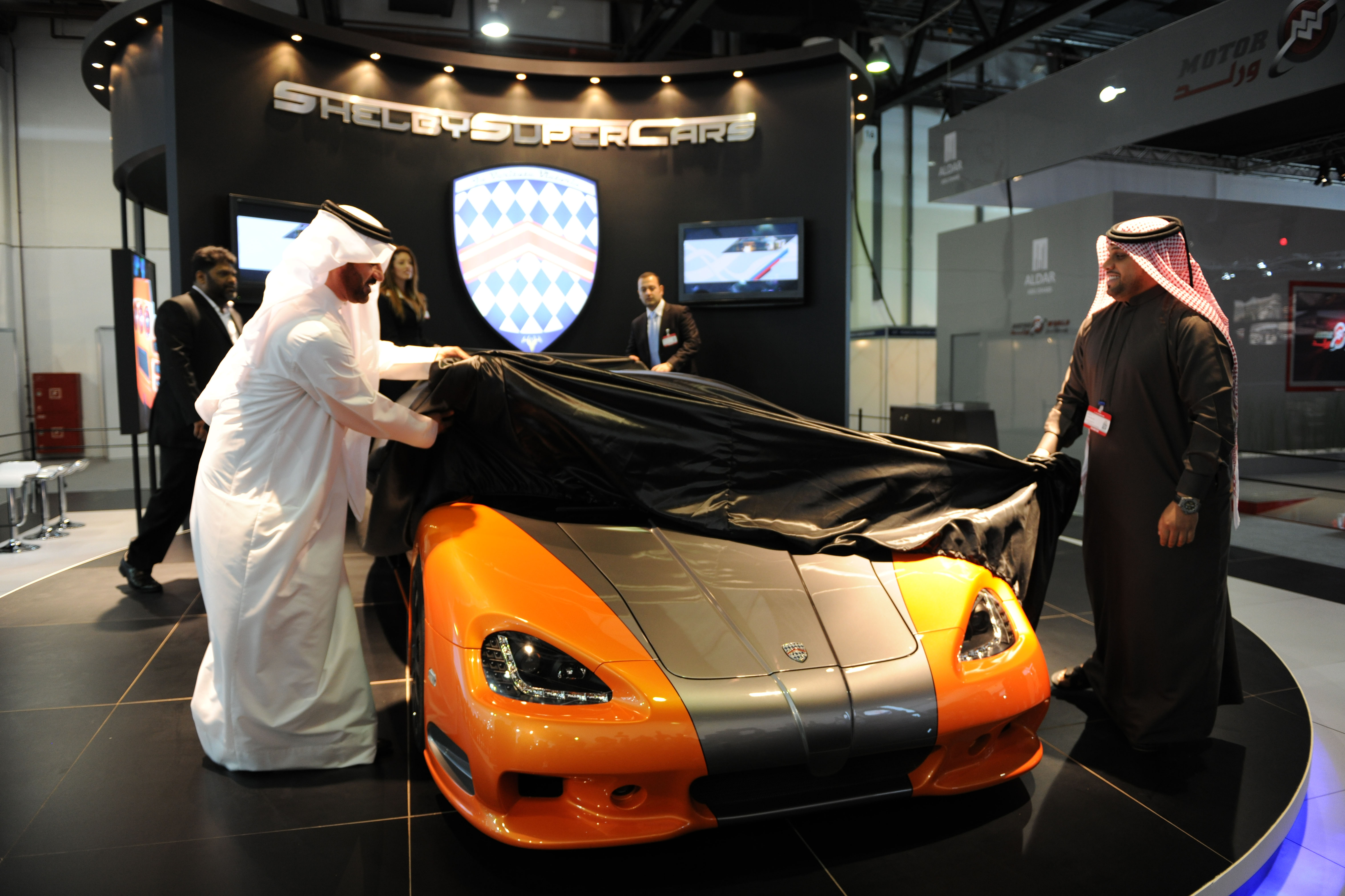 SSC Ultimate Aero being unveiled in Dubai.